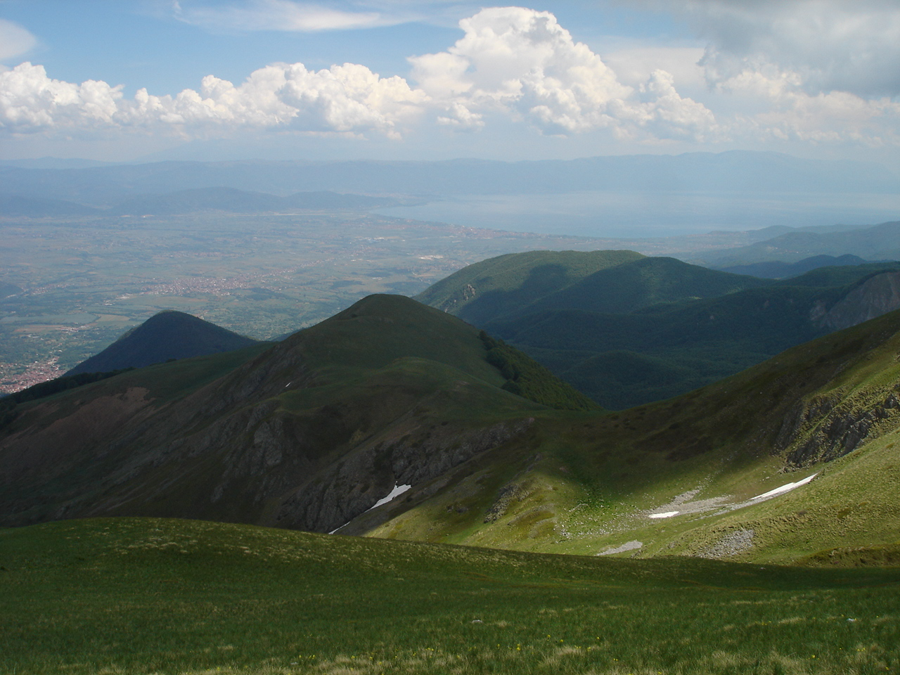 View of the Ohrid Lake from Jablanica Mountain, Macedonia